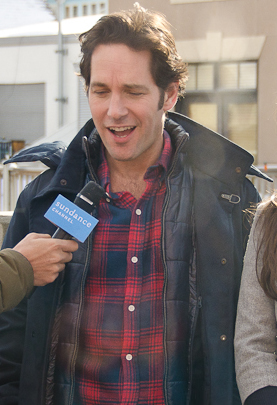 Paul Rudd at the SUNDANCE 2011: Inside The Cosmopolitan Lounge at The Sundance Channel HQ House.